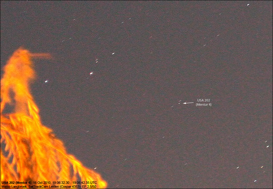 Mentor 4 (USA 202, 2009-001A) shows up as a magnitude +8 "star" in this image. Note how the real stars are trailed in this 10 second exposure: the geostationary satellite is pinpoint. Photograph by amateur satellite observer Marco Langbroek, the Netherlands.